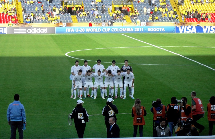 Selección sub 20 de Uruguay antes de disputar el partido frente a Camerún: Salvador Ichazo, Diego Polenta, Guillermo de los Santos, Angel Cayetano, Leandro Cabrera, Adrián Luna, Federico Rodríguez, Pablo Cepellini, Ramón Arias, Nicolás Prieto, Camilo Mayada.